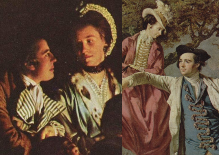 Details from two pictures by Joseph Wright of Derby: An Experiment on a Bird in the Air Pump and Mr and Mrs Thomas Coltman